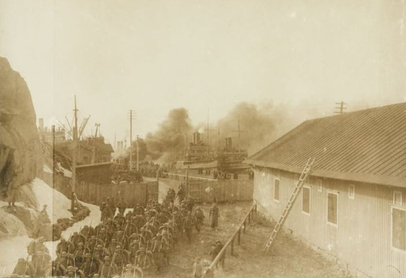 German Baltic Sea Division landing in Hanko, Finland, with Russian warships and submarines in fire.